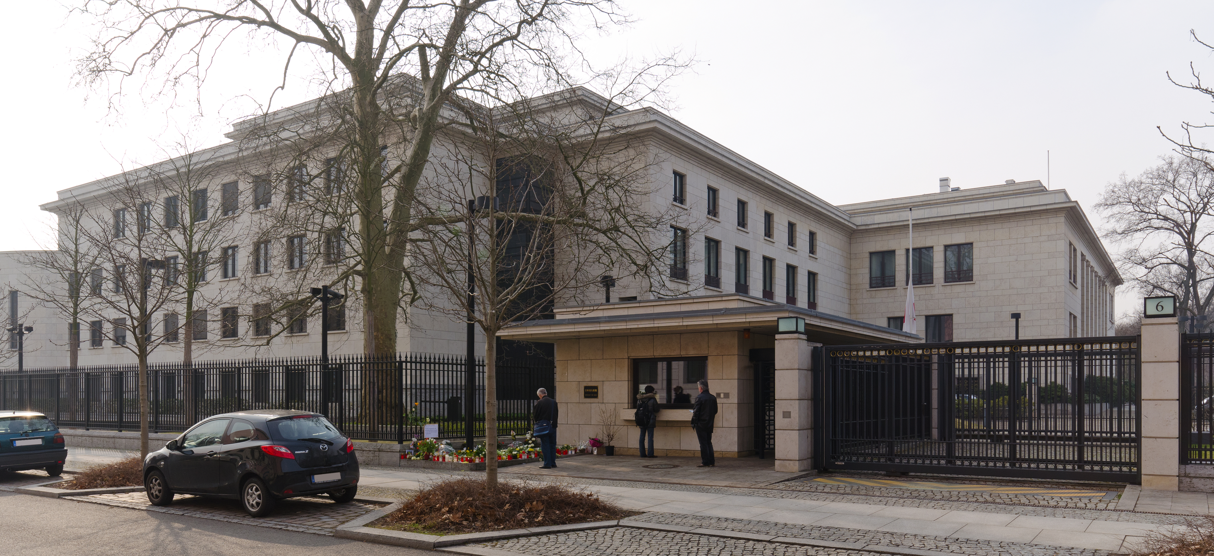 The Japanese Embassy in Hiroshima Str 6, Berlin after the 2011 Tōhoku earthquake and tsunami and the subsequent Fukushima I nuclear accidents. Berlin citizens have deposited candles and flowers at the entrance. The Japanese flag is at half-mast.